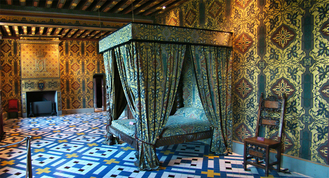 Château de Blois, Loir-et-Cher, Centre, France. The Queen's bedroom. On the fireplace, the monogram of Henri II and Catherine de Medici made with an H and two interlaced C.